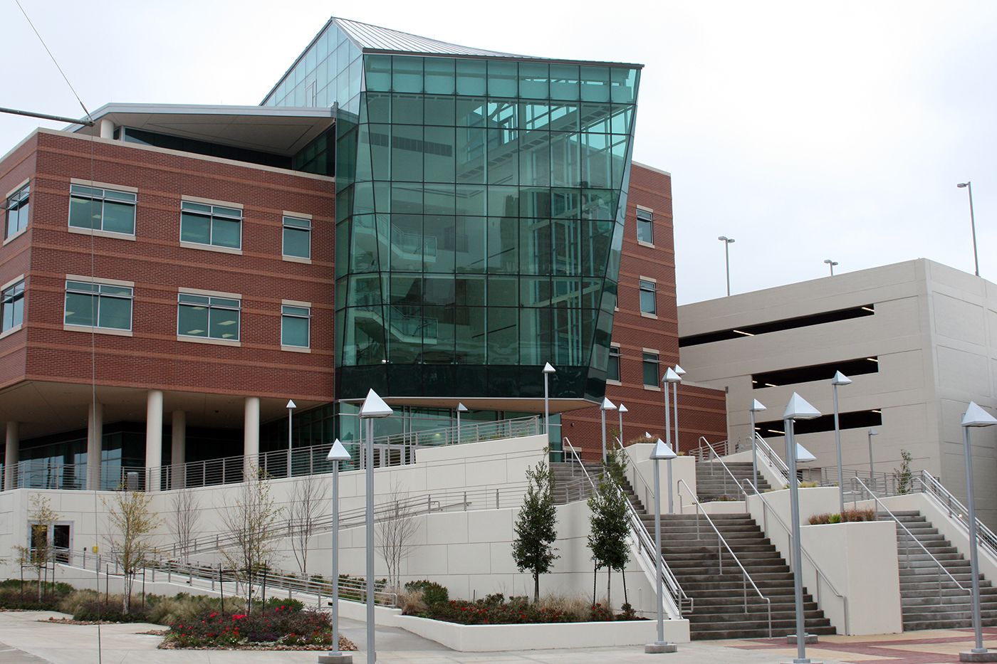 University of Houston-Downtown Shea Street Building houses the College of Business.